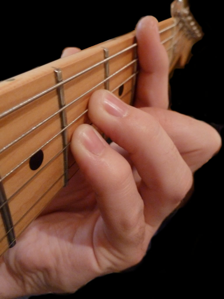 Bm-chord